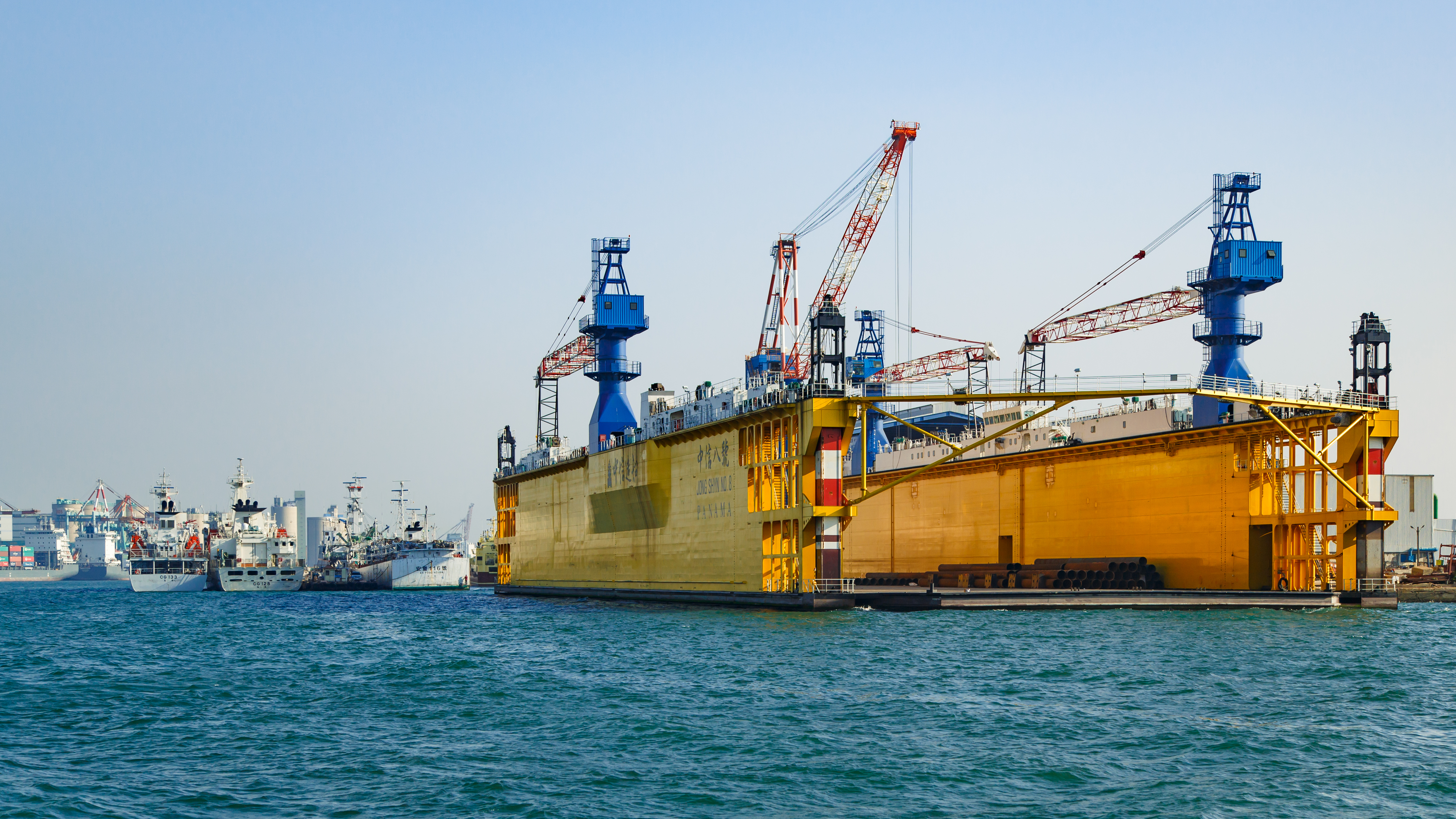 Kaohsiung, Taiwan: Floating drydock Jong Shyn No. 8 of Jong Shyn Shipbuilding Group in Kaohsiung Harbour.